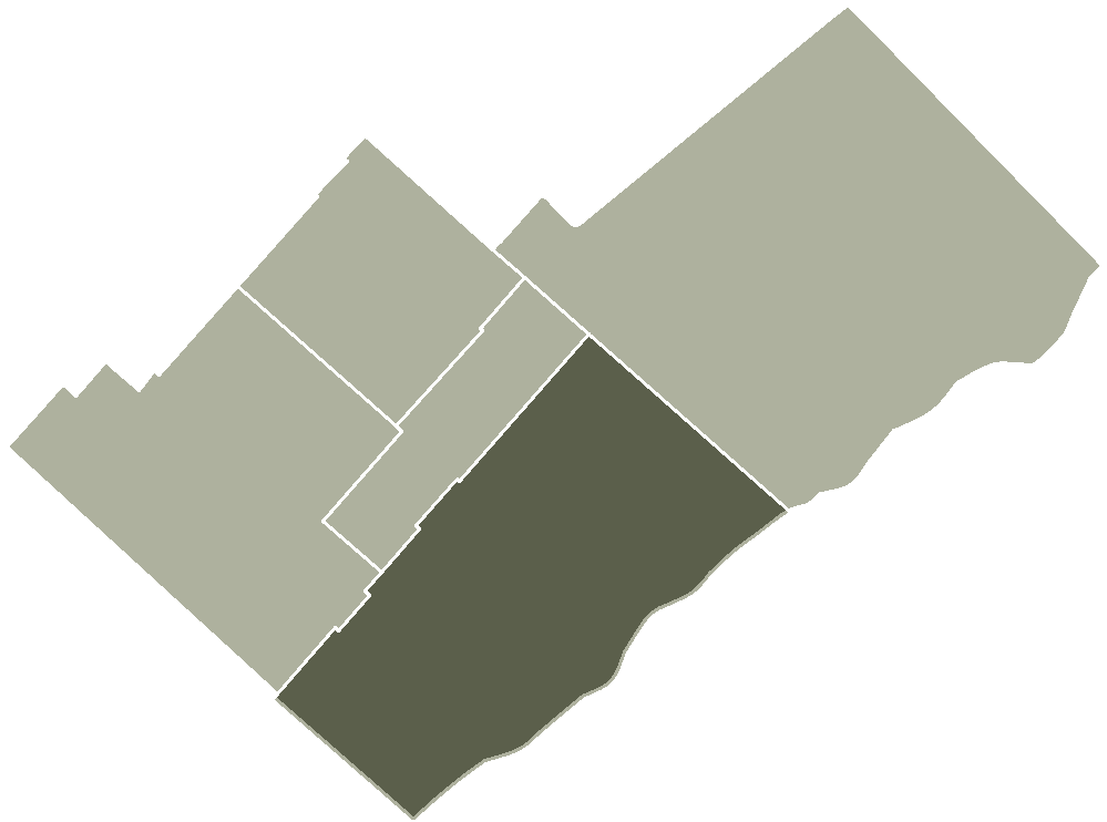 Location of the "Bella Vista" locality in the "San Miguel Partido" of the "Greater Buenos Aires", Argentina.